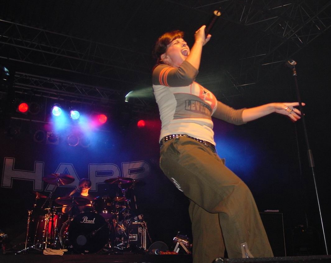 Marta Jandová, singer of her band "Die Happy at the Festival "Rock im Hinterland" in Obrigheim (Palatinate)